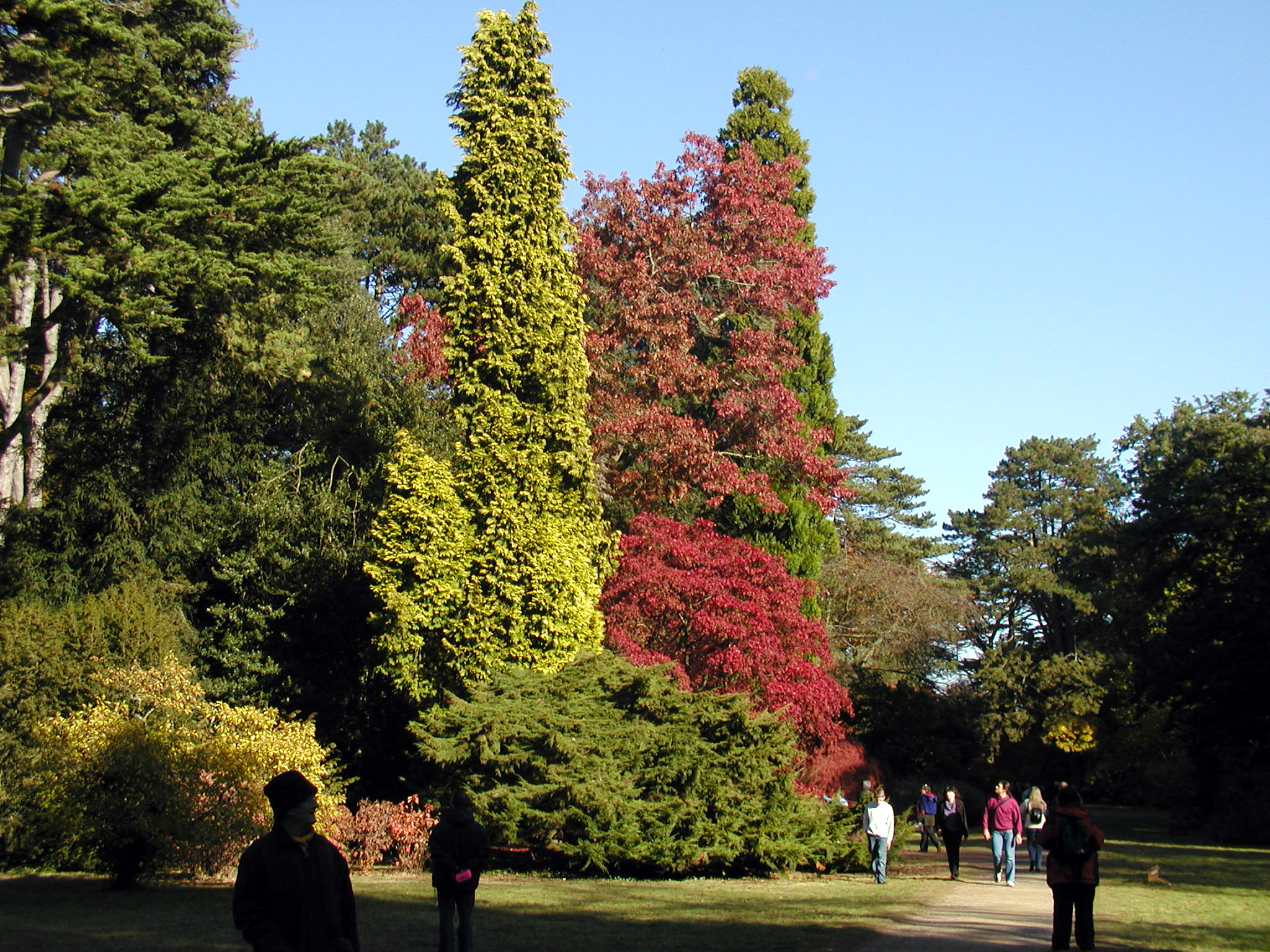 Autumn scene at Westonbirt, Gloucestershire, England. Photographed by Adrian Pingstone on 26th October 2003 and placed in the public domain.